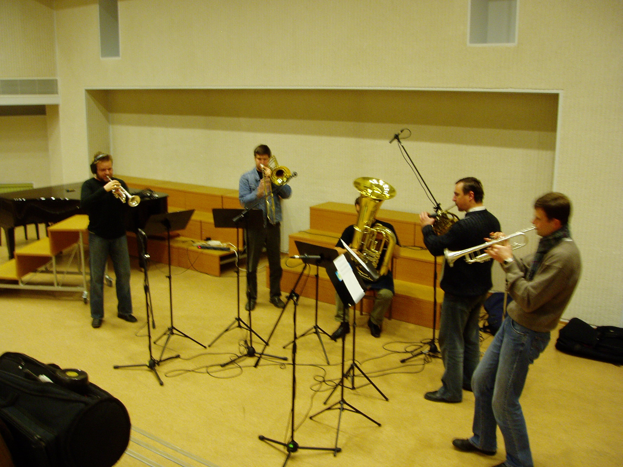 Sostines Vario Kvintetas